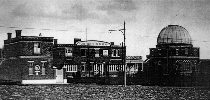 Picture of the astronomic observatory of Hem in 1909